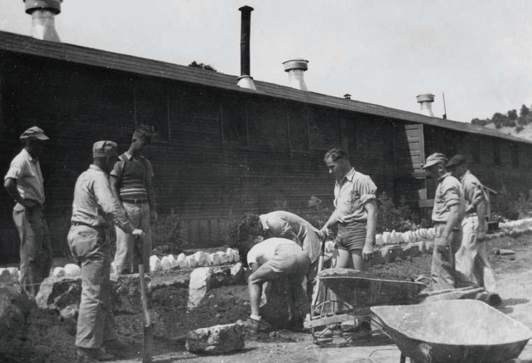 German internees working on their garden at Fort Stanton, New Mexico, during World War II. New Mexico Magazine Collection, Courtesy Palace of the Governors Photo Archives (NMHM/DCA), Neg. No. HP.2007.20.320.